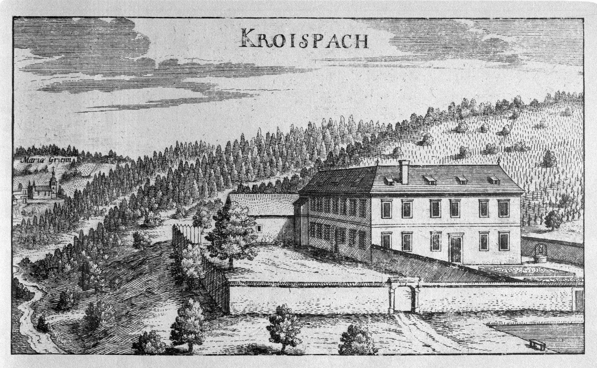 Castle Kroisbach, Graz, Austria, Engravings by G. M. Vischer